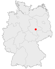 This image was copied from de. The original description was: Position von Köthen